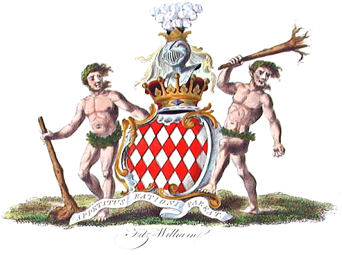 Source: Segar's Baronagium Genealogicum 1764